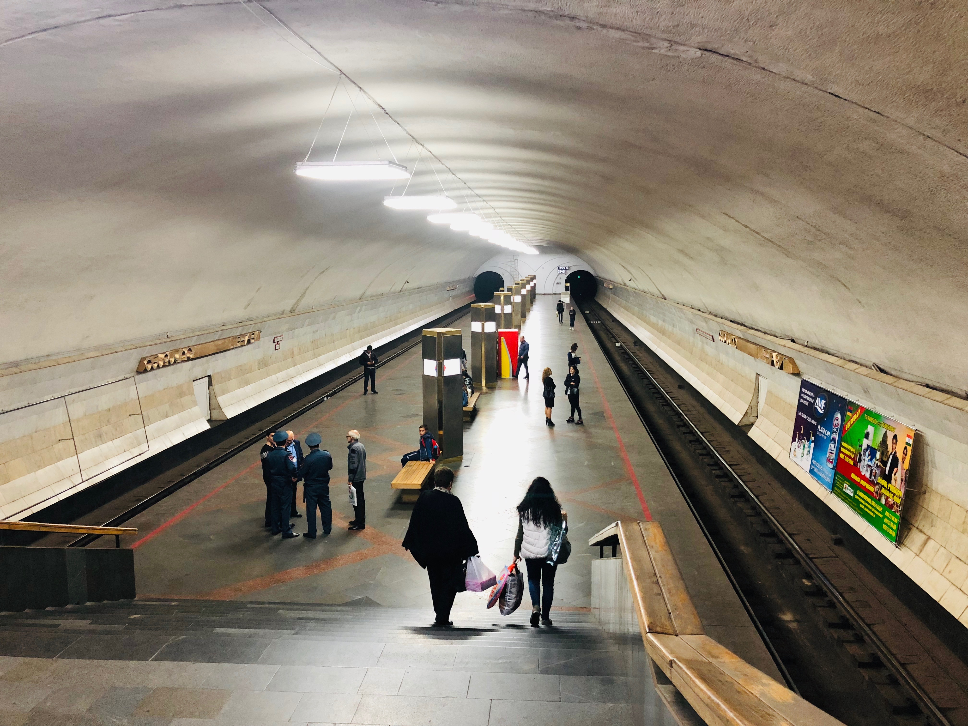 Shengavit Metro Station, Yerevan, Armenia